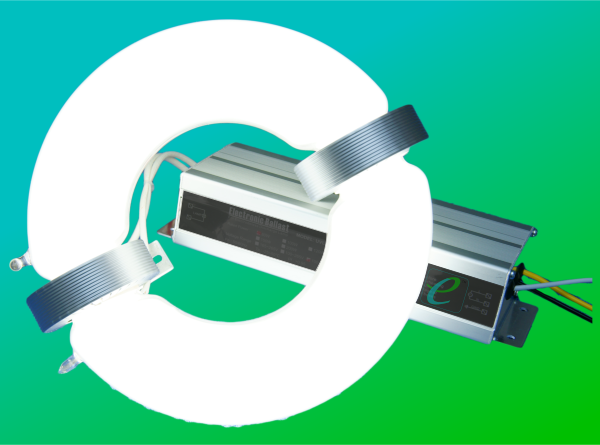 A round, 150 watt, external inductor, magnetic induction lamp with its electronic ballast